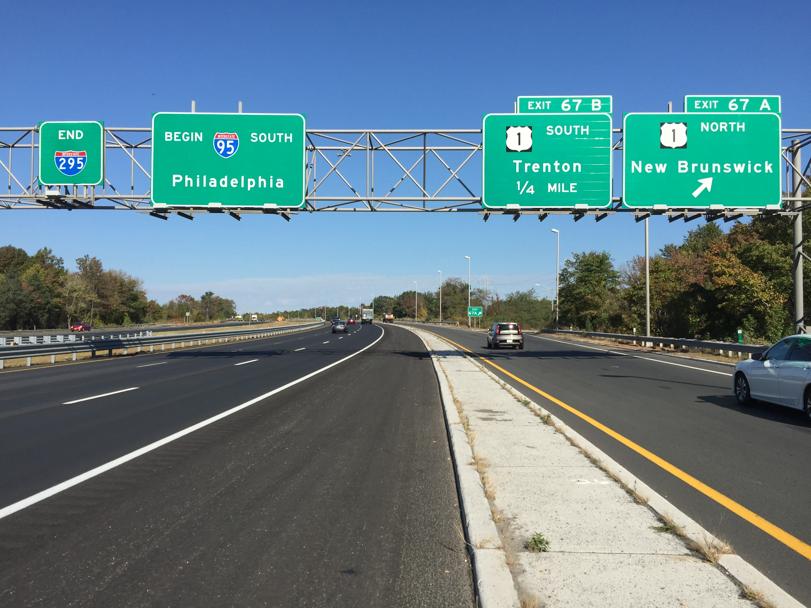 View north at the north end of Interstate 295 (Camden Freeway) and south at the north end of Interstate 95 at Exit 67A (U.S. Route 1 North, New Brunswick) in Lawrence Township, Mercer County, New Jersey